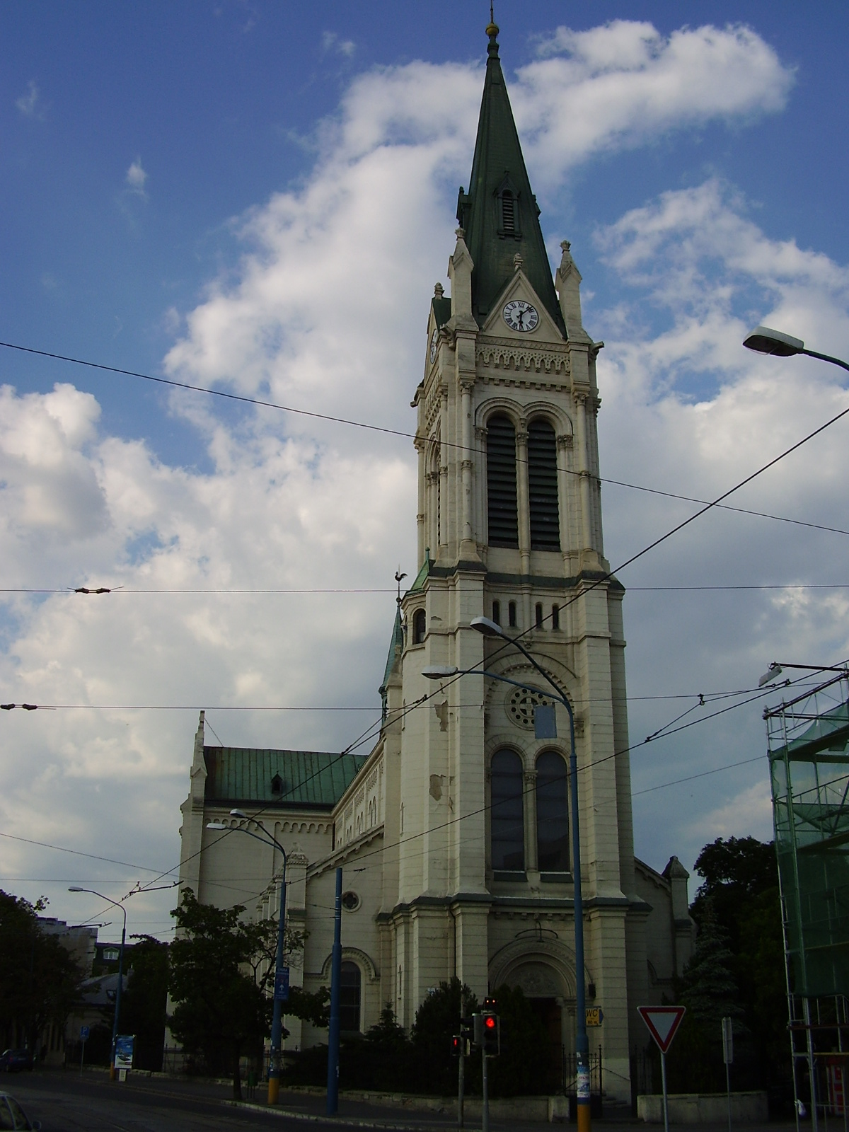 Blumenthal (Flower Valley) Church in Bratislava